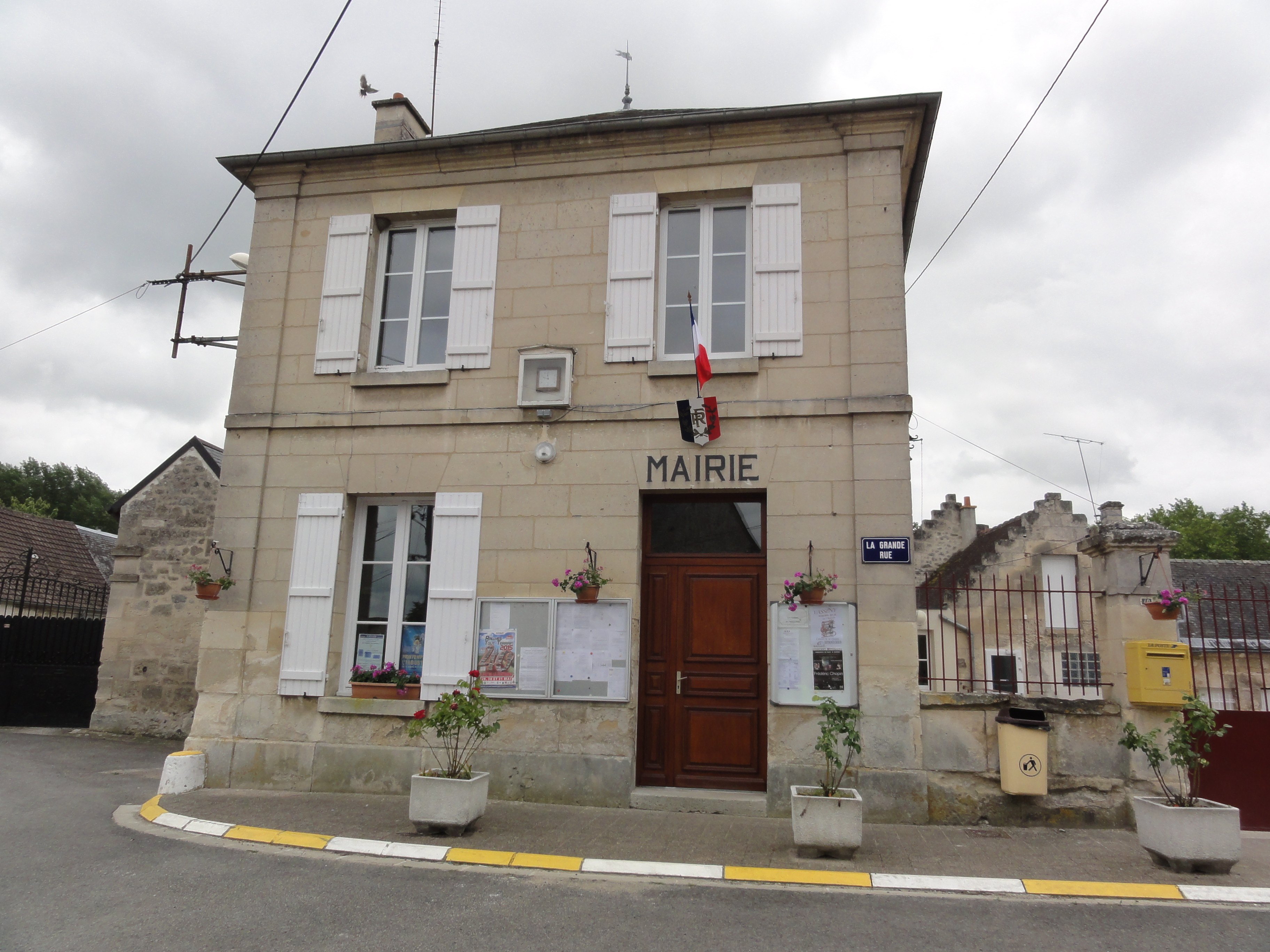 Vasseny (Aisne) mairie